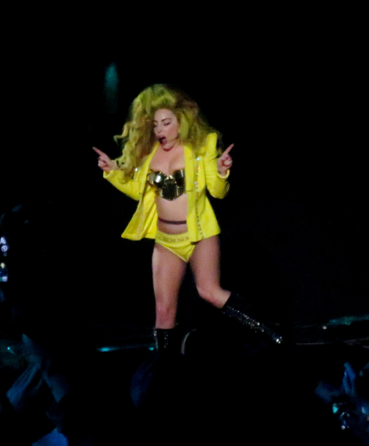 Gaga performing "Just Dance"